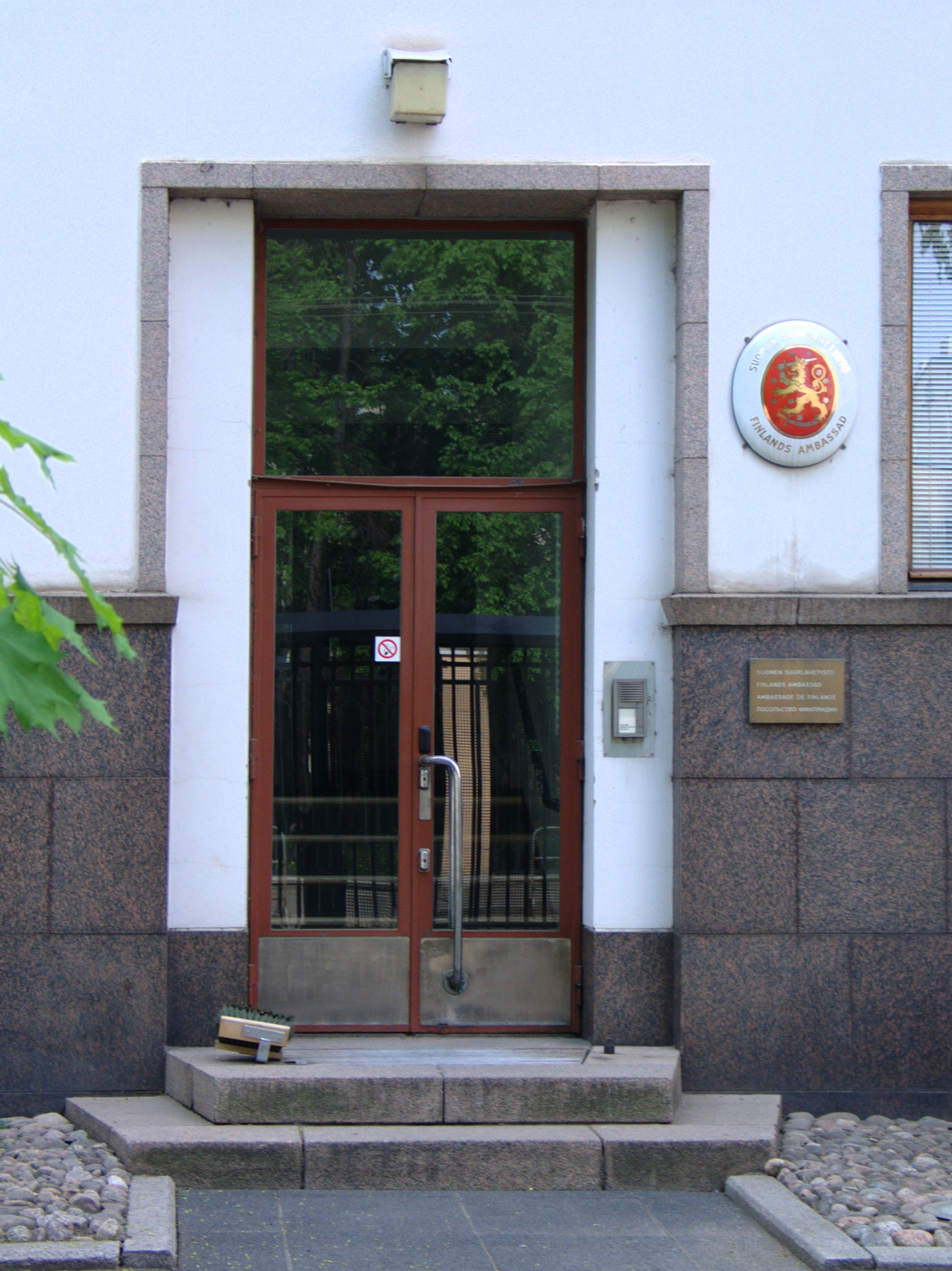 The entrance to the Embassy of Finland in Moscow (Kropotkinskiy side-street 15/17).